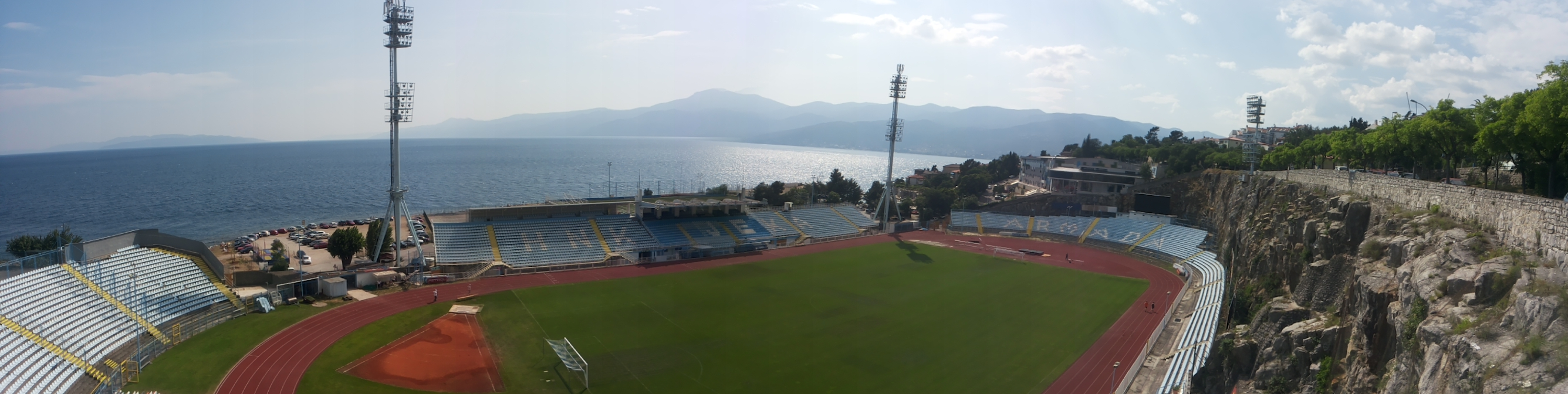 Panorama